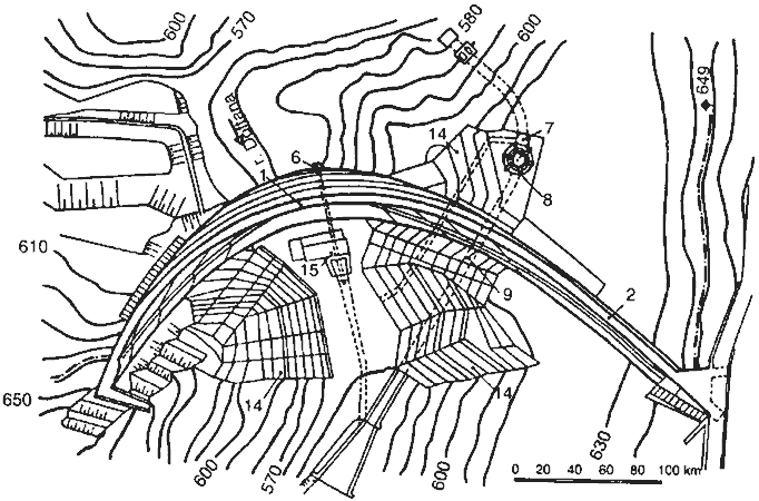 Plan of Paltinu map